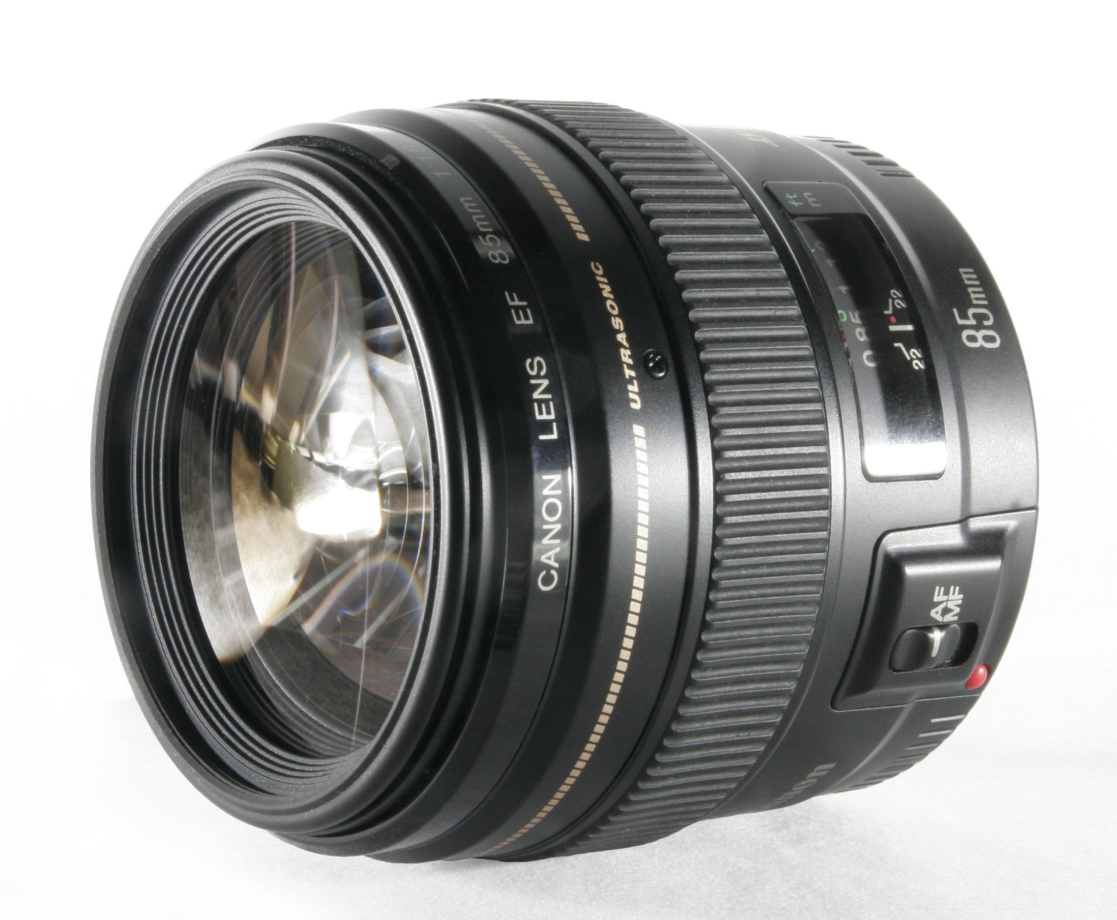 Canon EF Objektiv, 85 mm f/1,8, Ultraschallmotor